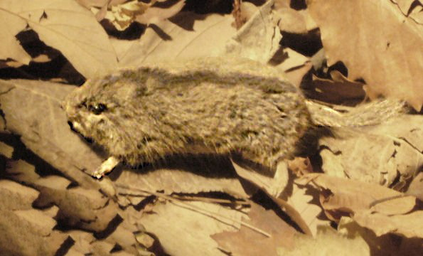 Japanese Dormouse, image taken in Asama Volcano Museum, Gunma, Japan